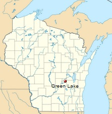 screenshot of location map of Green Lake in Wisconsin in enwikiEsperanto: ekranbildo pri la mapo en la angla Vikipedio montranta la situon de Green Lake en Viskonsino